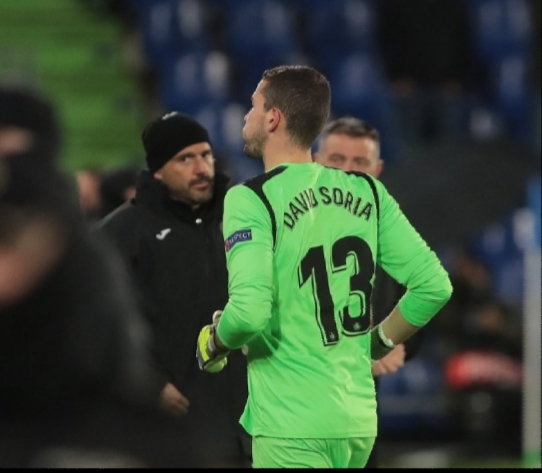 David Soria with Getafe FC in 2019